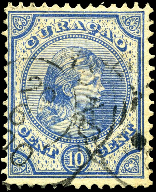 Netherlands Antilles 10c stamp of 1895